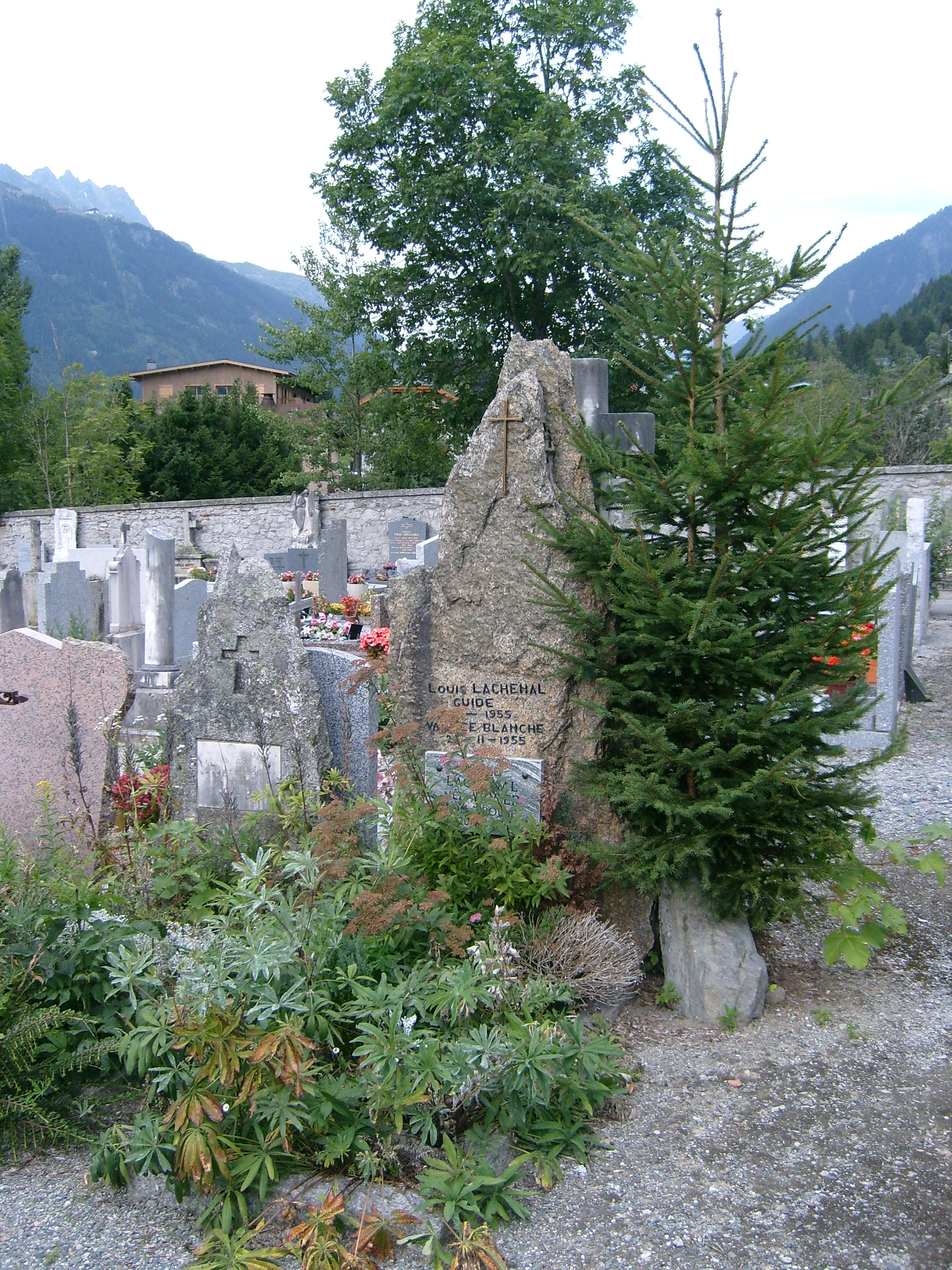 This is photo of Louis Lachenal tomb